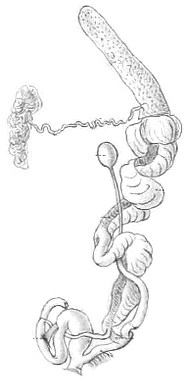 Drawing of the reproductive system of Amphidromus porcellanus.